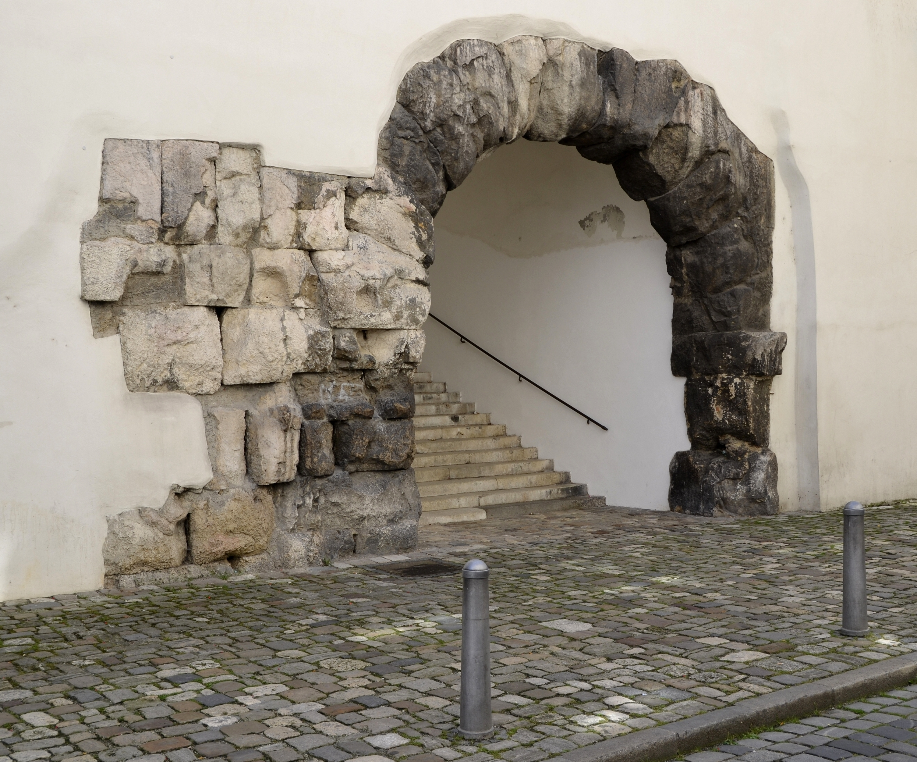 The famous Porta Praetoria in Regensburg, Bavaria.